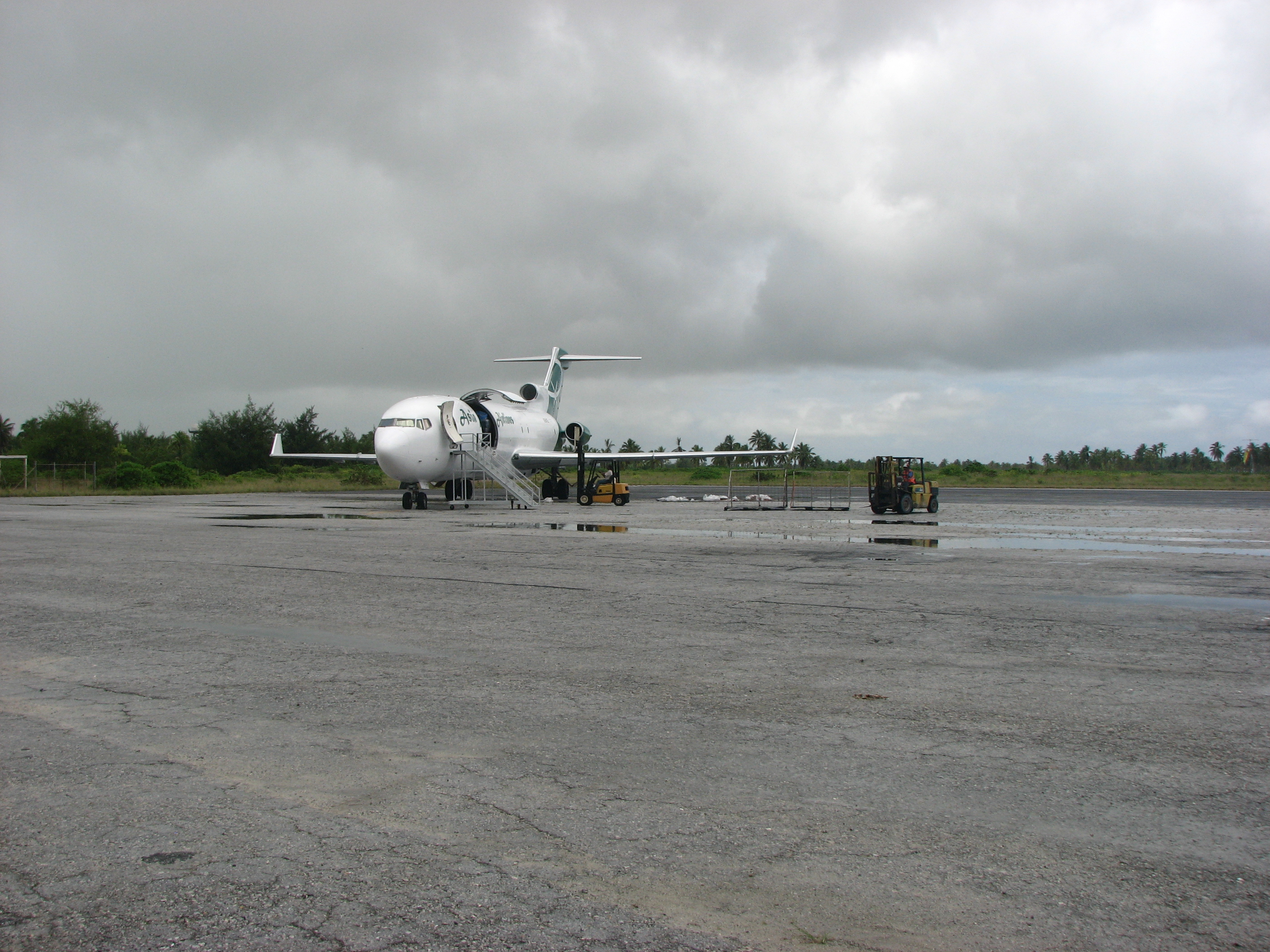 Asia Pacific Airlines Boeing 727-200F being turned around at Cassidy International Airport (CXI), Kiritimati, Kiribati.